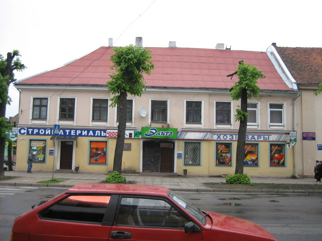 Alexander I of Russia stayed in this house as a guest of Napoleon I during the signing the treaty of Tilsit.